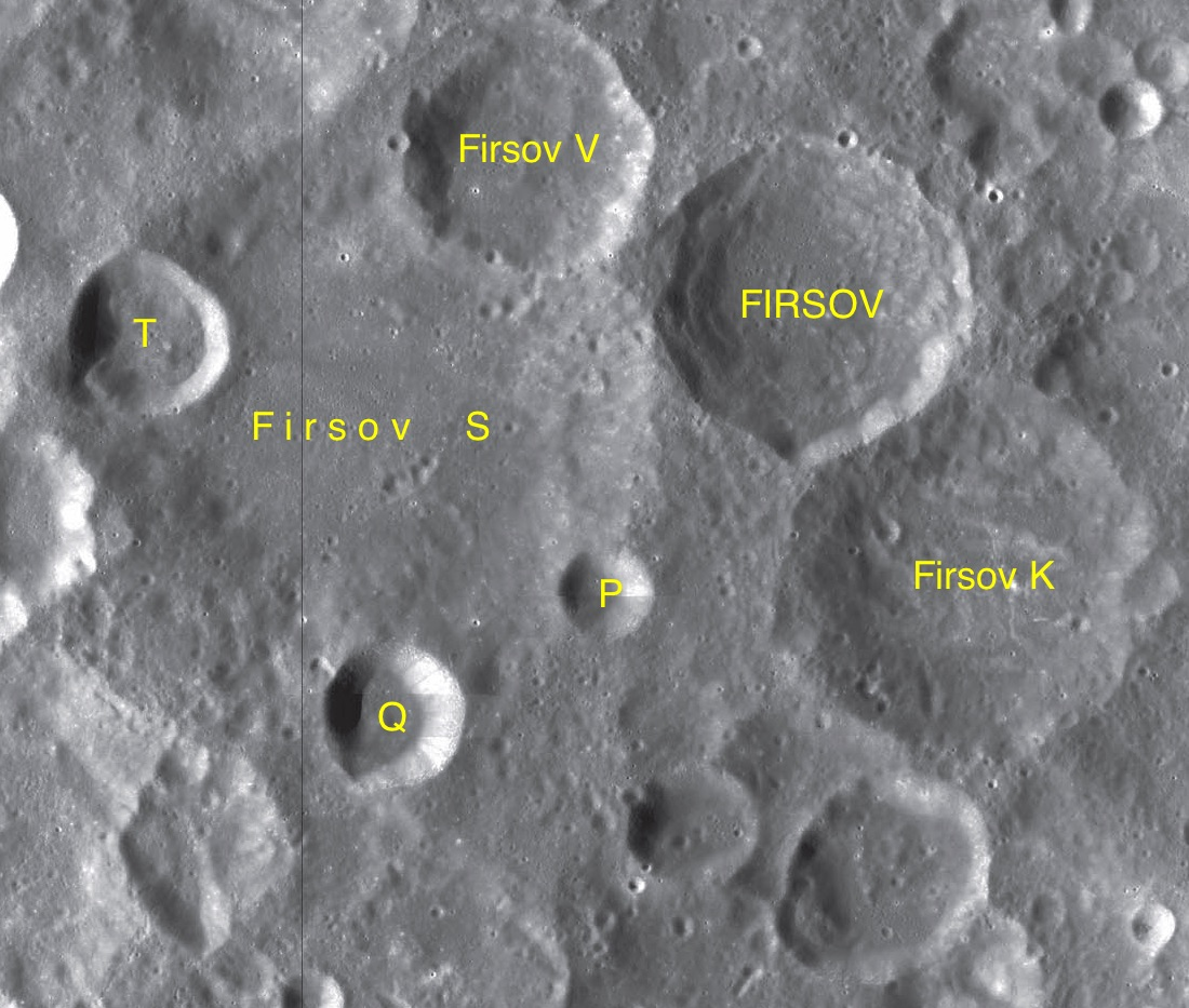 Parts of the charts LAC-64, LAC-65 used for the presentation